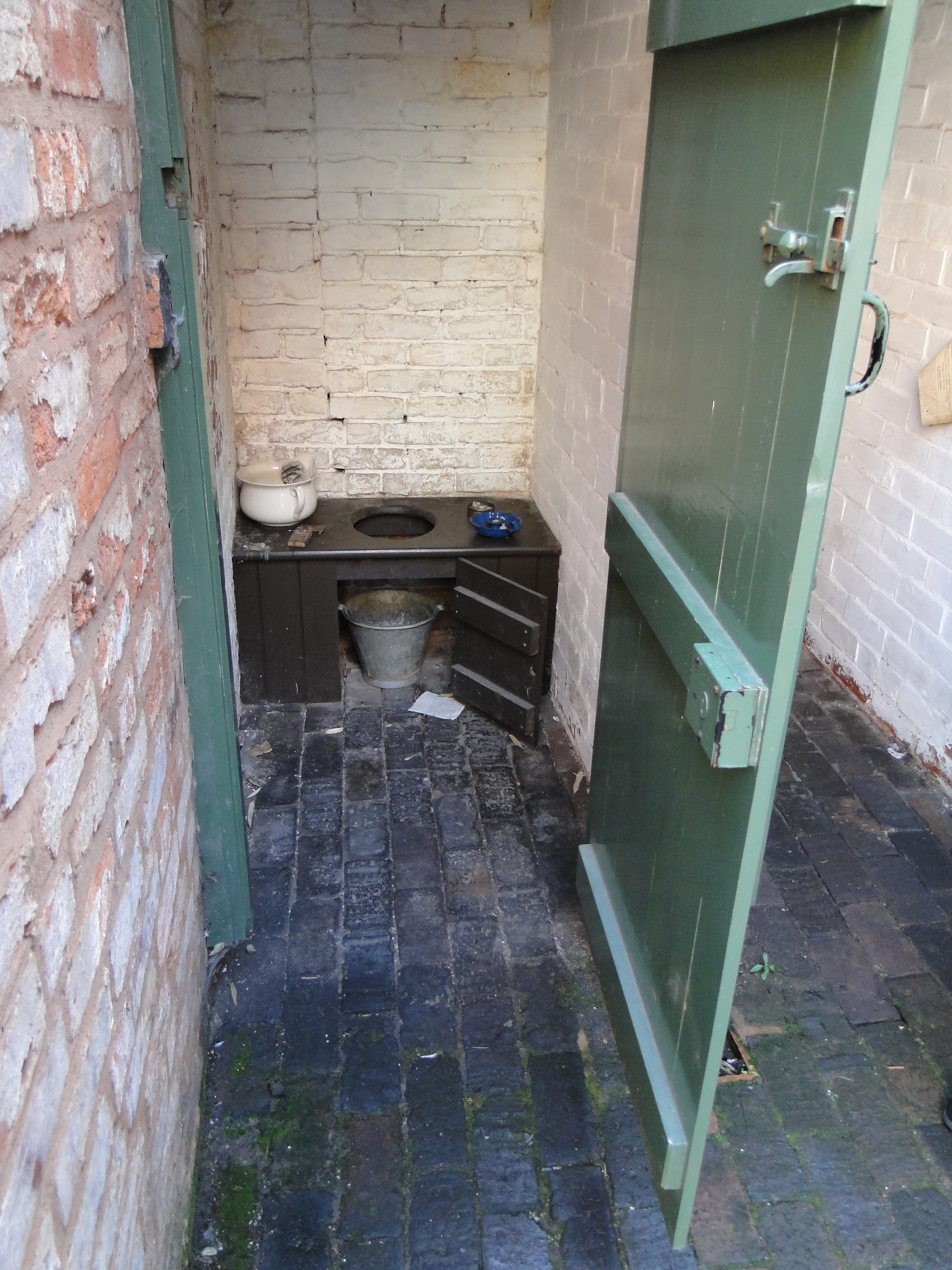 Water closet at the Birmingham Back to Backs